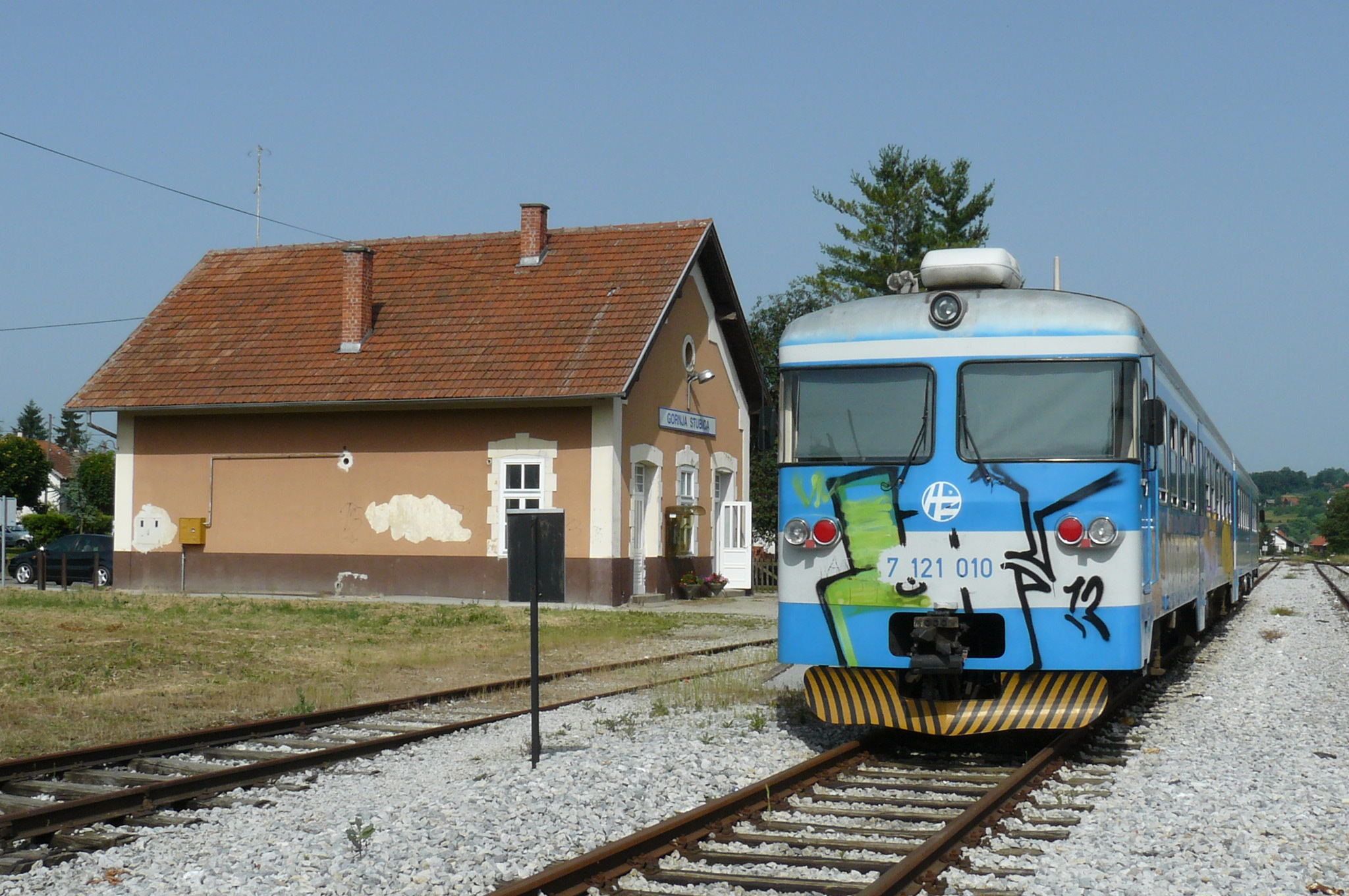 Gornja Stubica Rail Station.